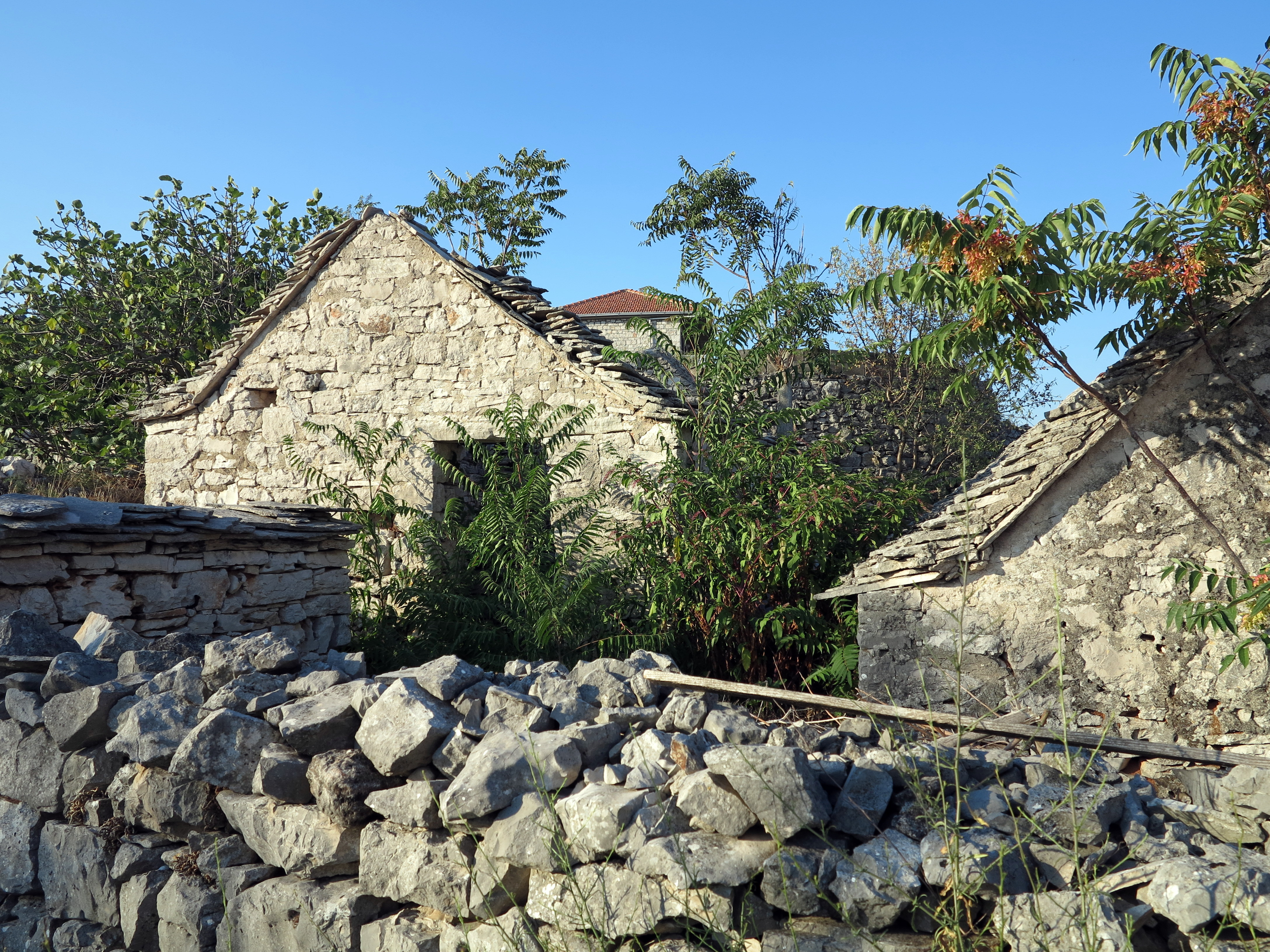 Gornje Selo on the island Šolta / Croatia / Adriatic Sea. View to the west.